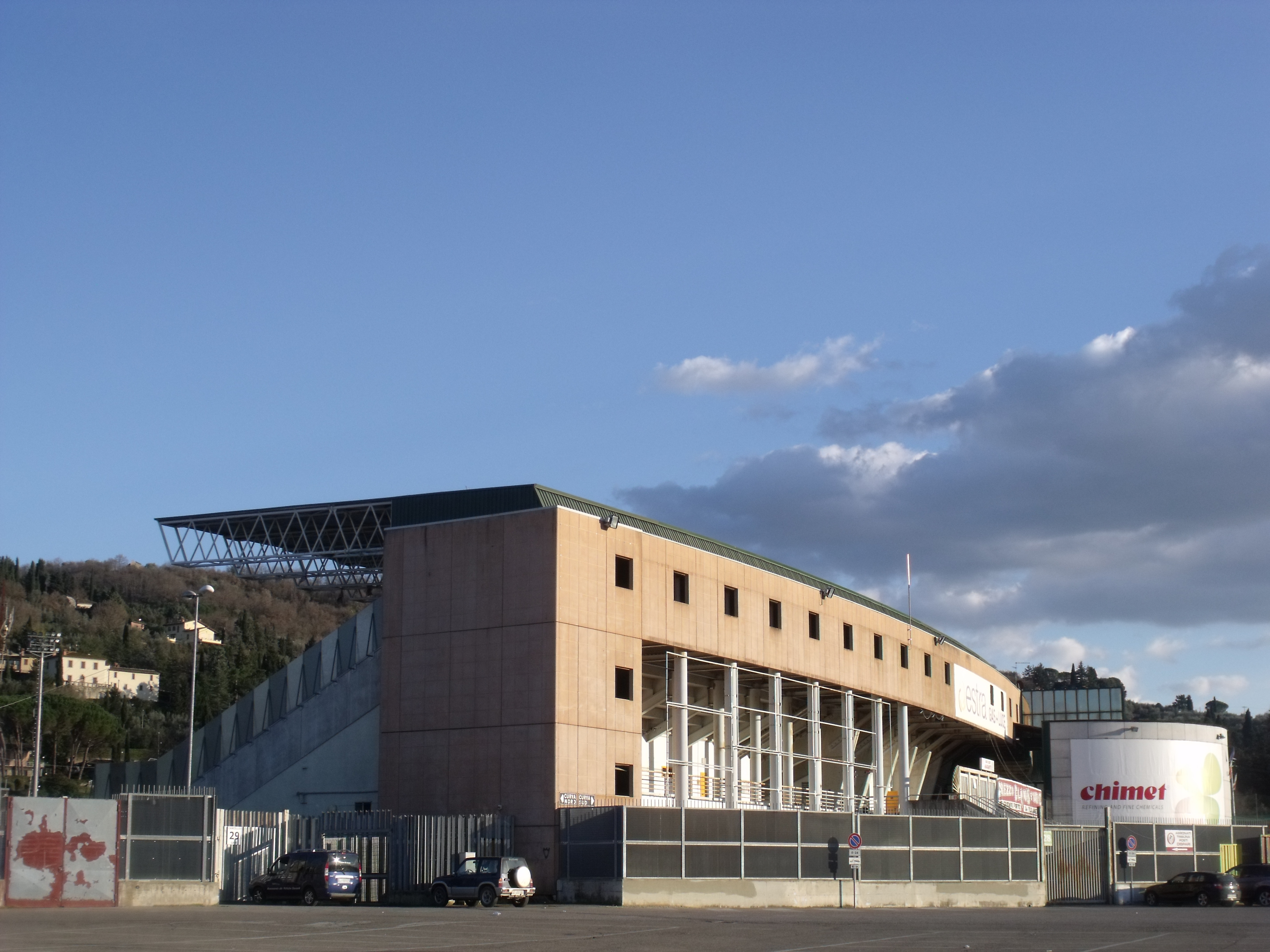 Main Stand of the Stadium Stadio Città di Arezzo, Tuscany, Italy